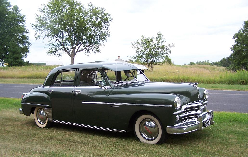 1949 Dodge Coronet